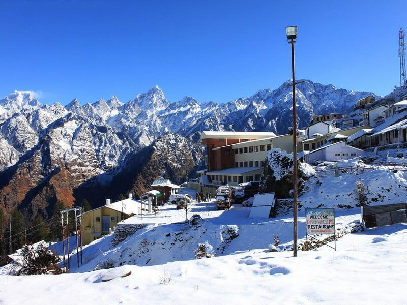 Auli hill station, Uttarakhand, India